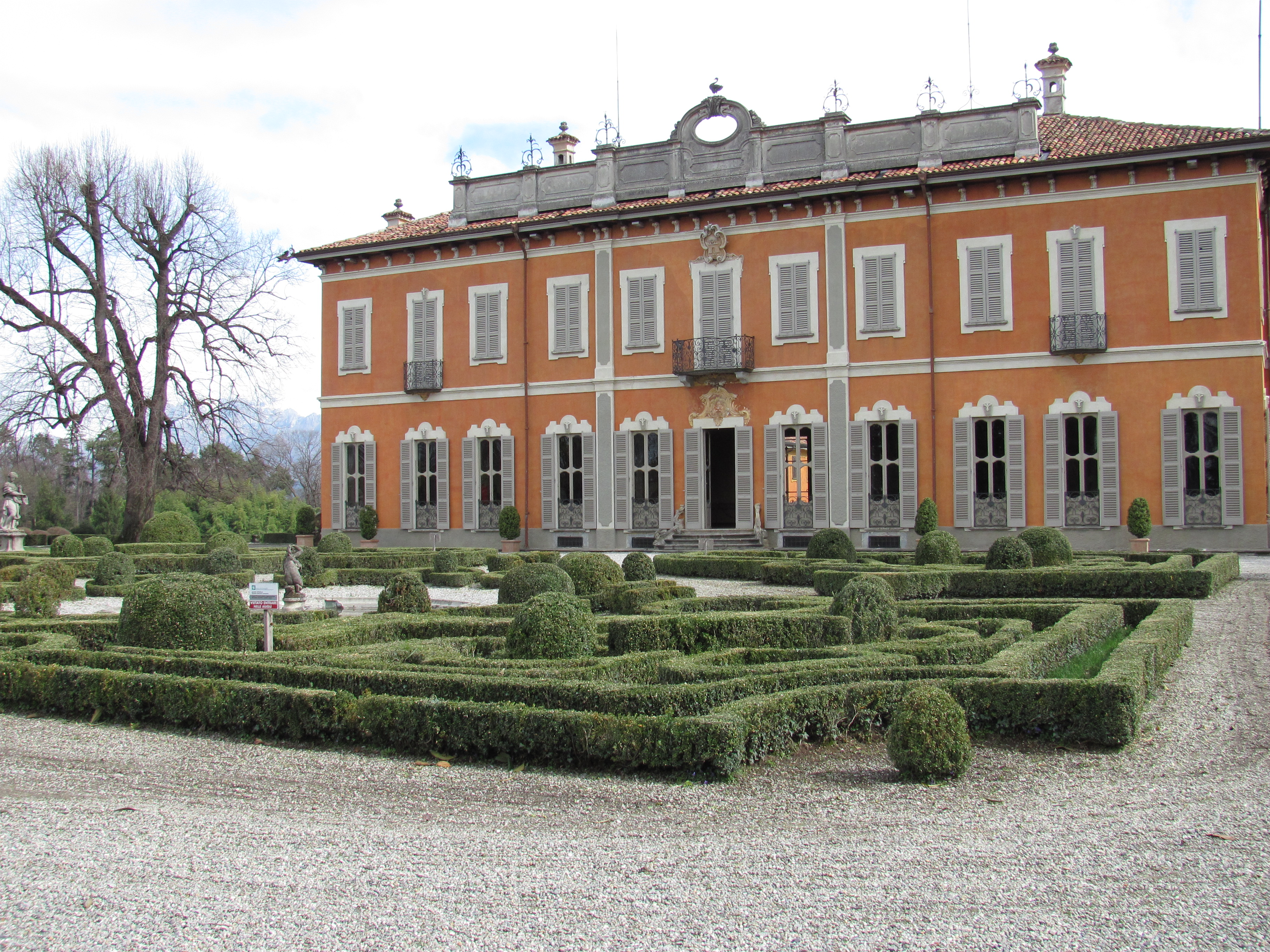 Villa Subaglio at Merate (LC), Italy